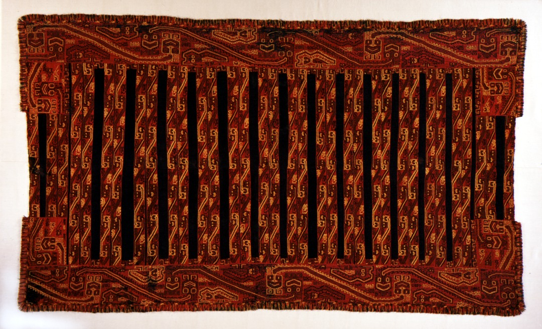 Peru, South Coast, Paracas, 200 B.C. - A.D. 200 Costumes Camelid fiber in plain weave with stemstitch and loop stitch embroidery Los Angeles County Fund (67.4) Costume and Textiles